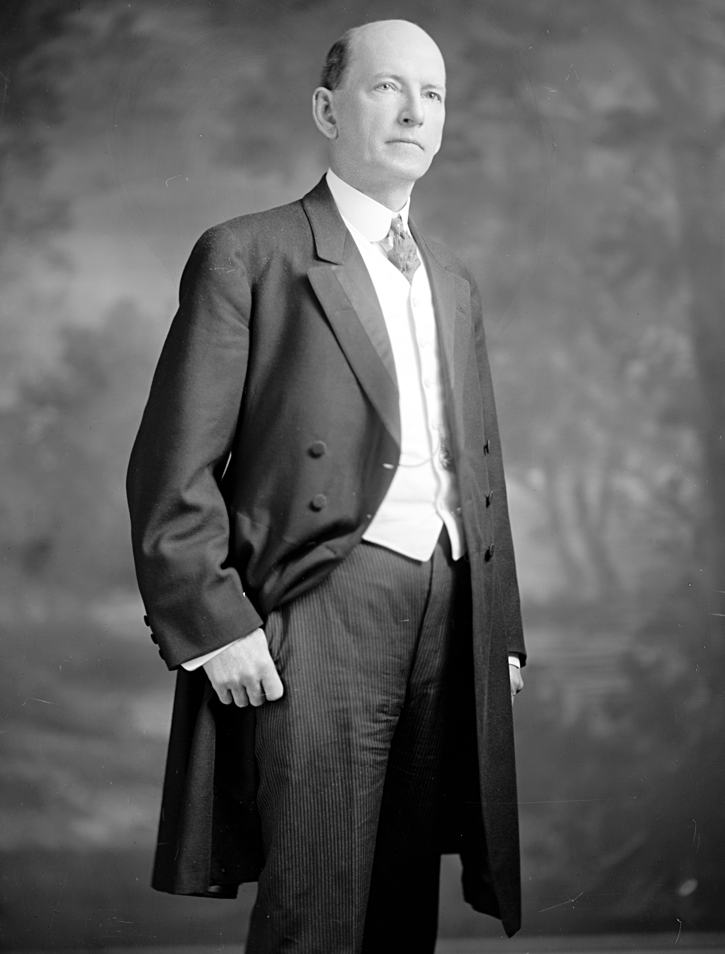 Richard W. Austin, US Representative from Tennessee